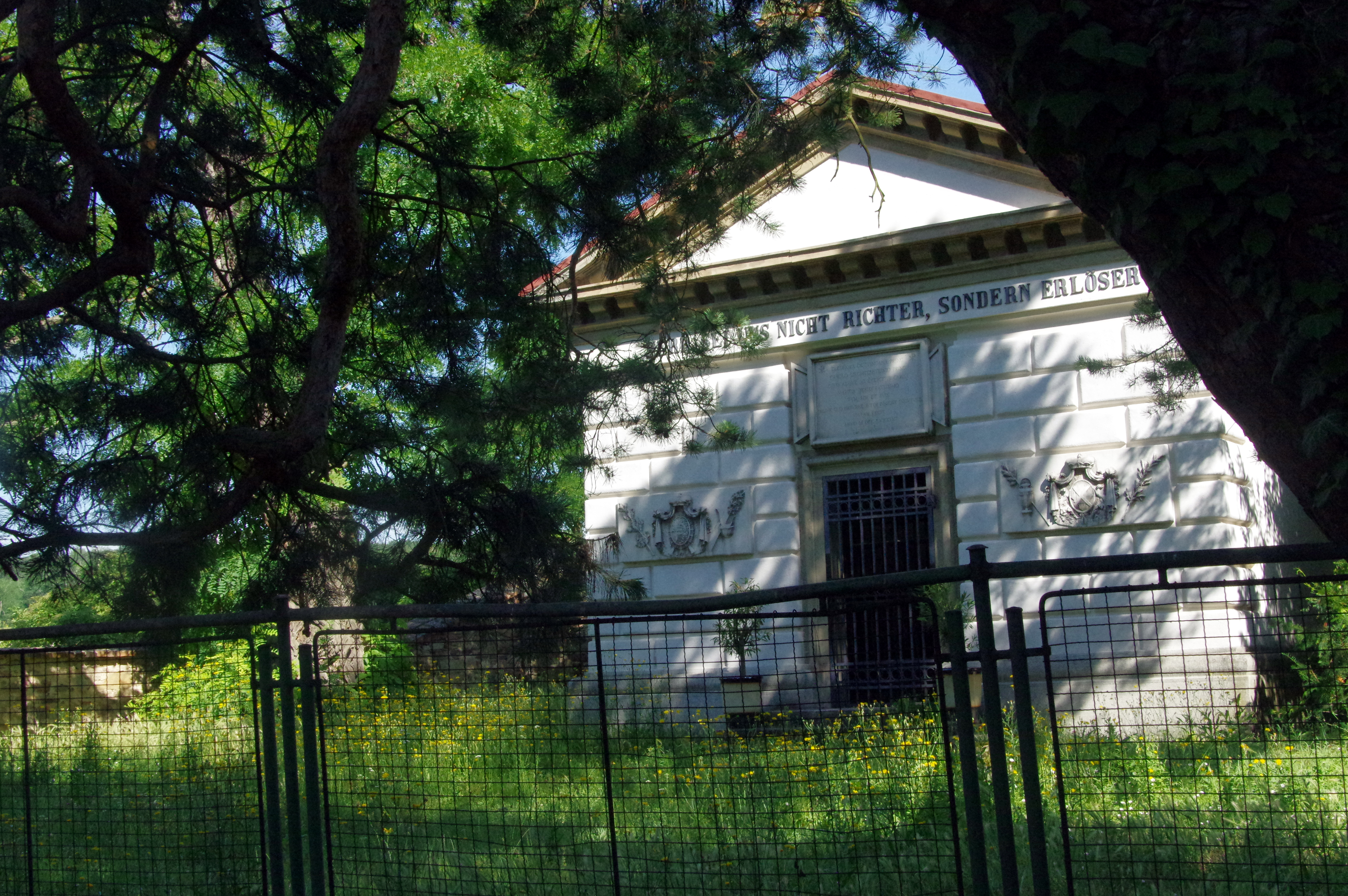 8.7.16 Moravsky Krumlov